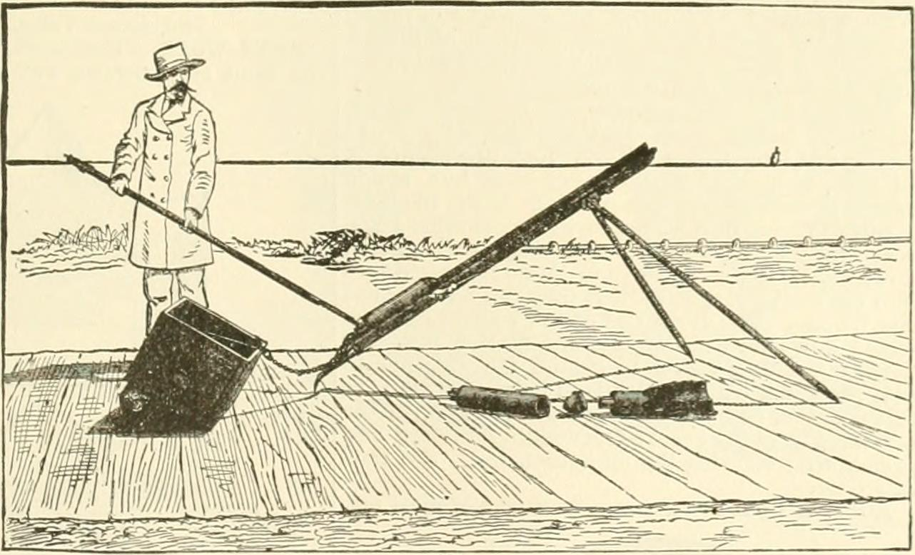 Hooper life saving rocket, based on Hale rocket